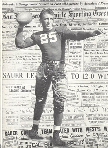 Nebraska football player George Henry Sauer